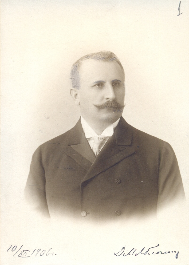 Dimitar Yablanski (1858-1937).